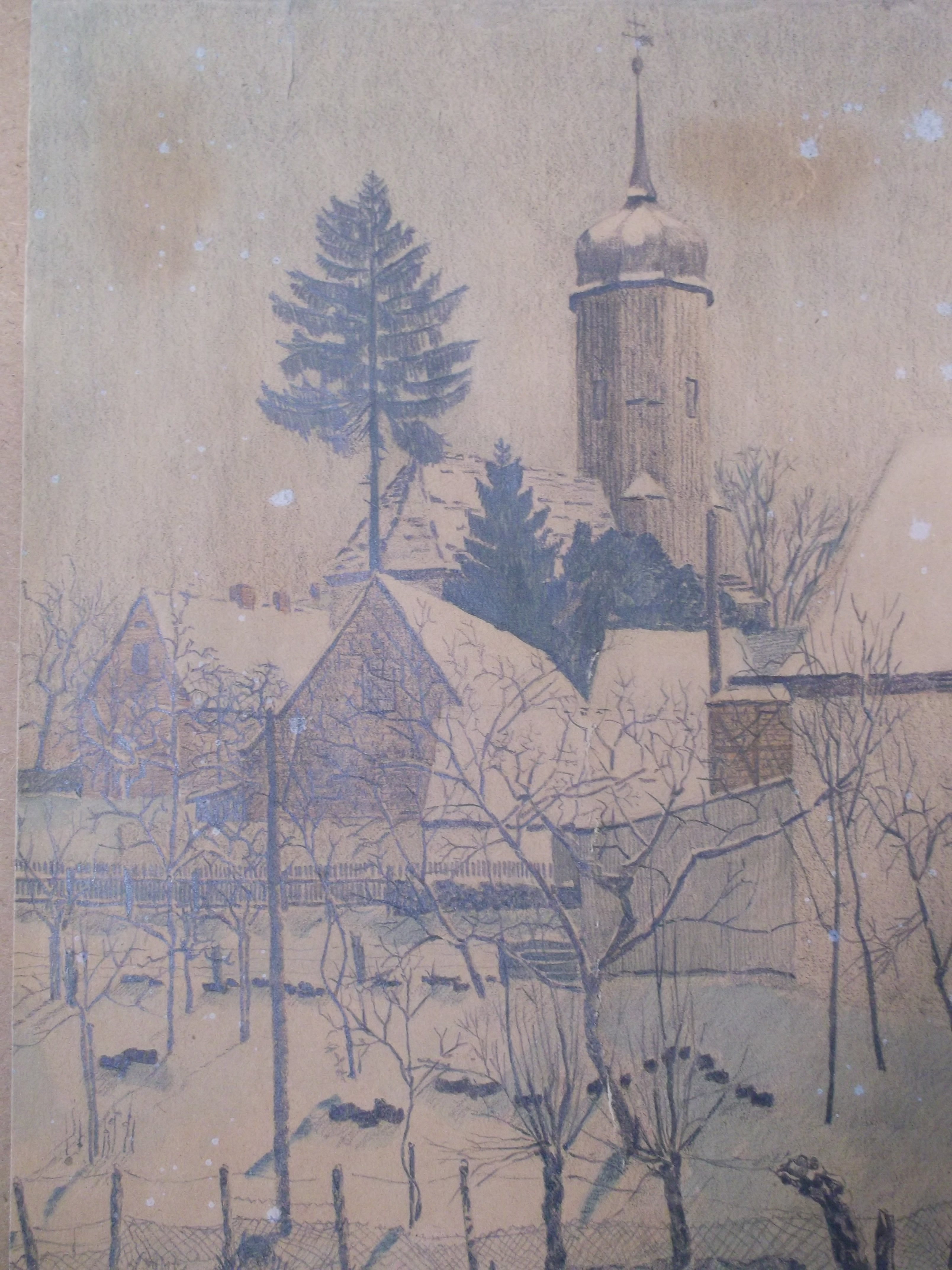 Drawing from 1936, Painter: Joachim Beige. Then teacher in Golschau's school